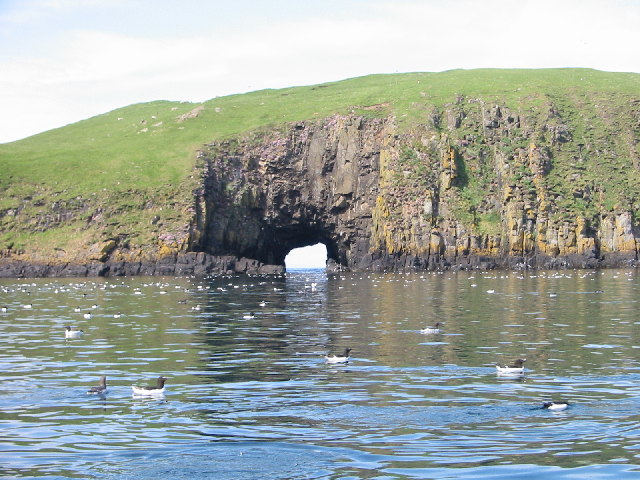 Cave on Garbh Eilean, Shiant Isles. view looking N through a natural arch (Toll a' Roimh)